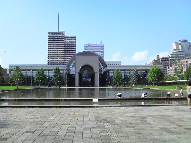 Fukuoka City Museum, Sawara-ku, Fukuoka, Japan